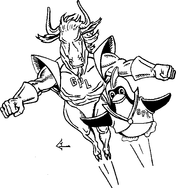 The Dynamic Duo: The Gnu and the Penguin in flight A picture of a the Dynamic Duo: the Gnu and the Penguin in flight. Copyright (C) 1999, Free Software Foundation, Inc. Permission is granted to copy, distribute and/or modify this image under the terms either: * the GNU General Public License as published by the Free Software Foundation; either version 2 of the License, or (at your option) any later version, or * the GNU Free Documentation License, Version 1.1 or any later version published by the Free Software Foundation; with the no Invariant Sections, with no Front-Cover Texts and with no Back-Cover Texts.